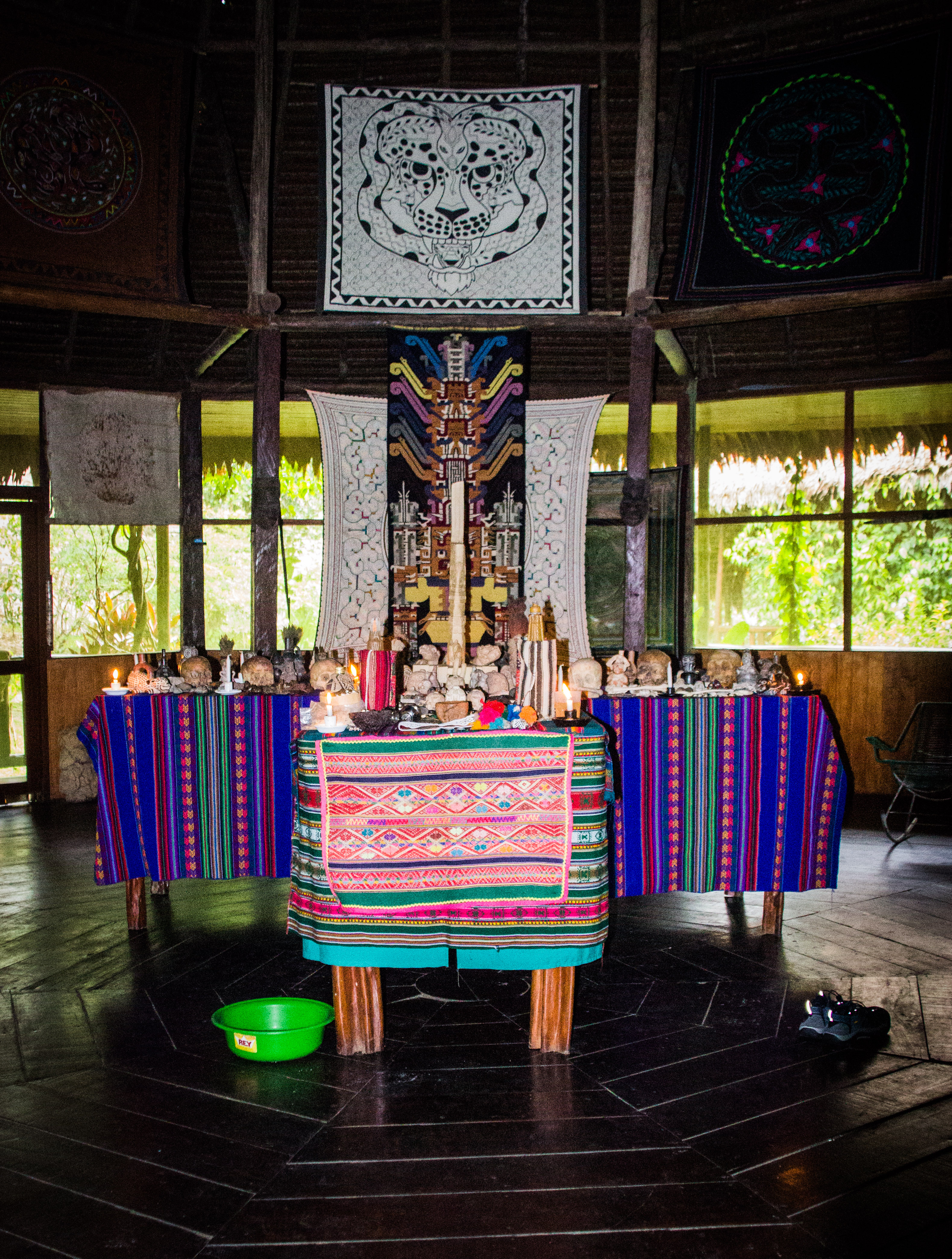 Essential elements for the ritual of ayahuasca.